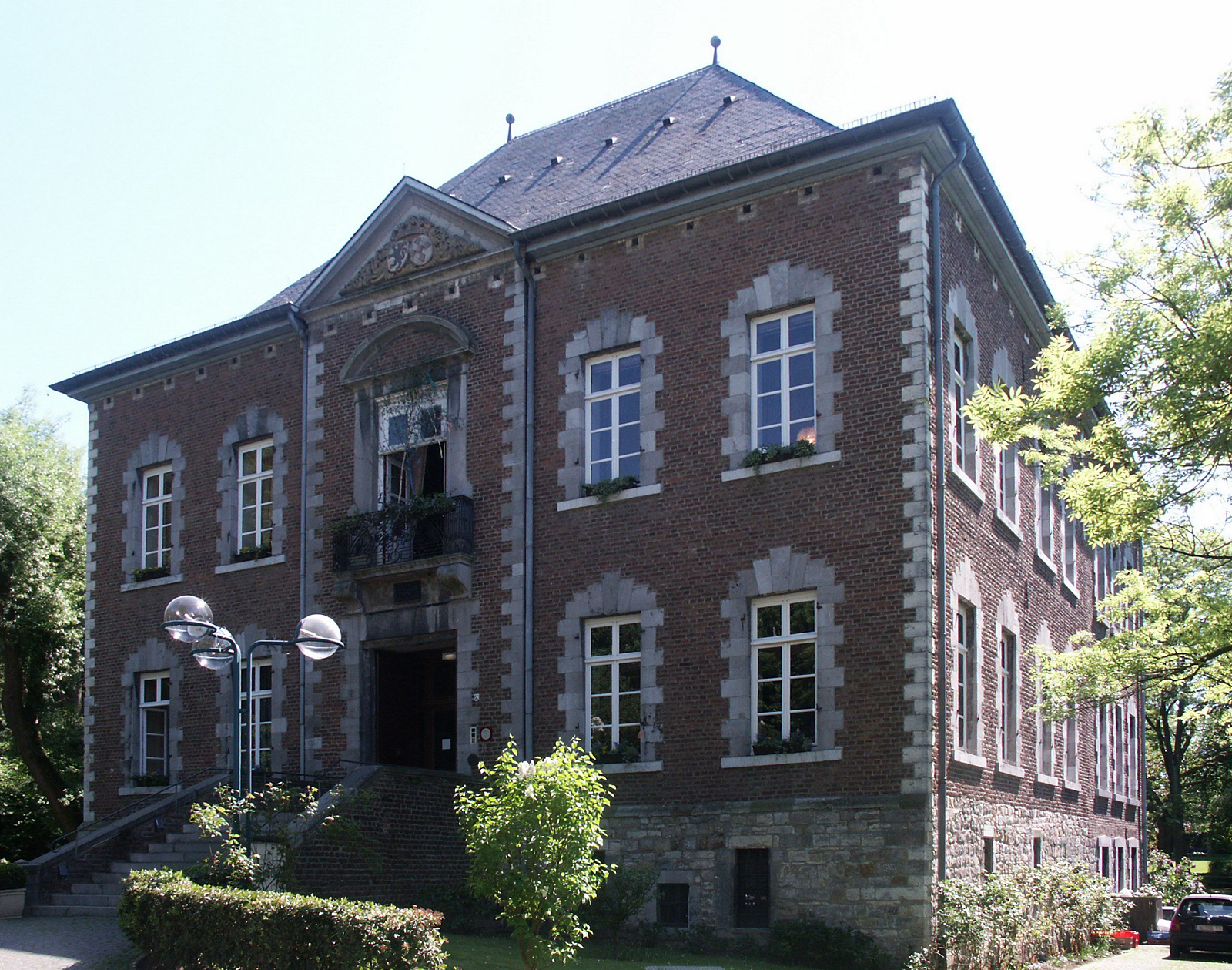 Schloss Schönau in Aachen-Richterich, front side